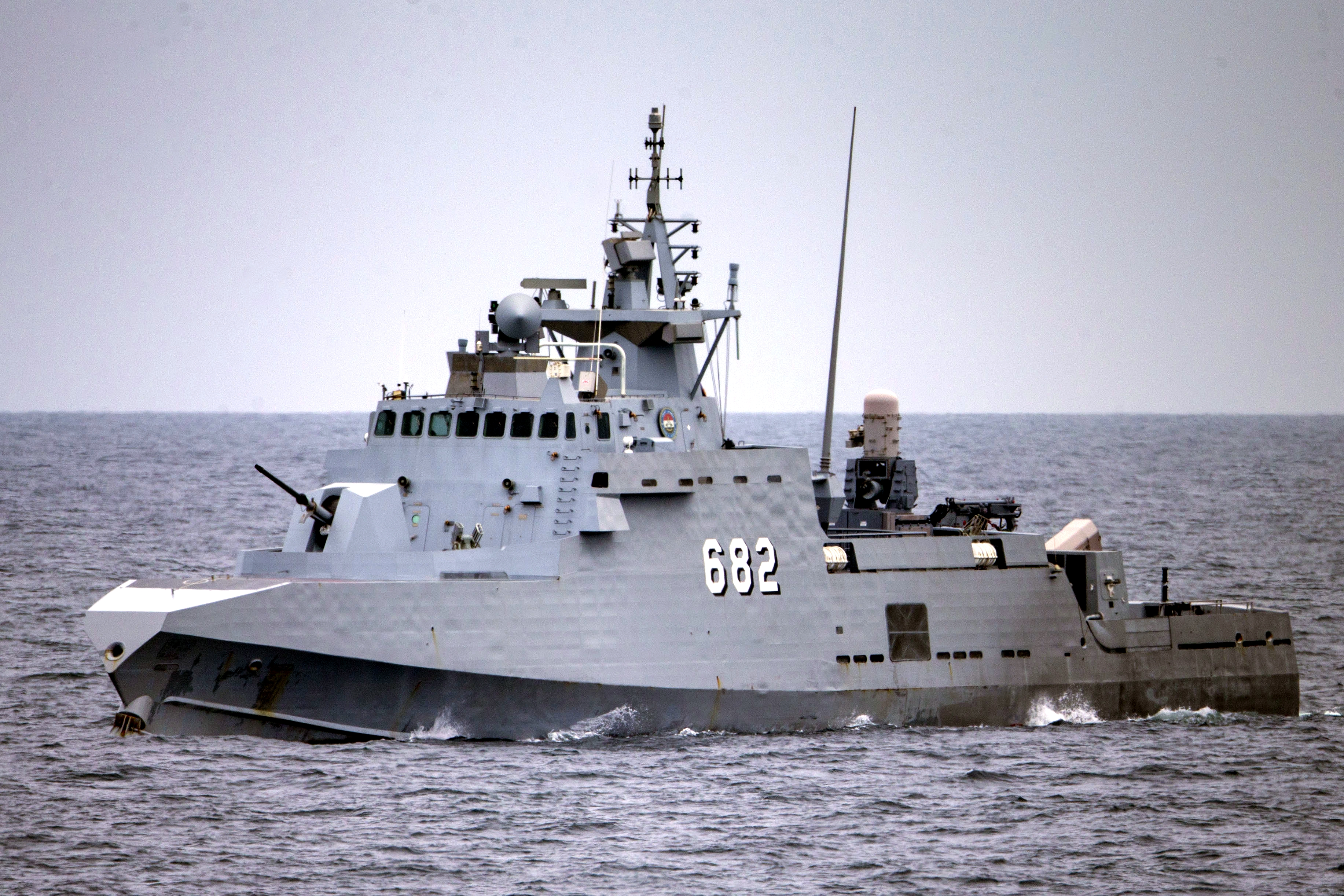 The Egyptian Navy's Ambassador III-class missile craft Soliman Ezzat (682) sails in the Arabian Sea during a passing exercise with the U.S. Navy Whidbey Island-class amphibious dock landing ship USS Fort McHenry (LSD-43), not visible, to practice maneuvering procedures and communication between ships, on 12 February 2019.